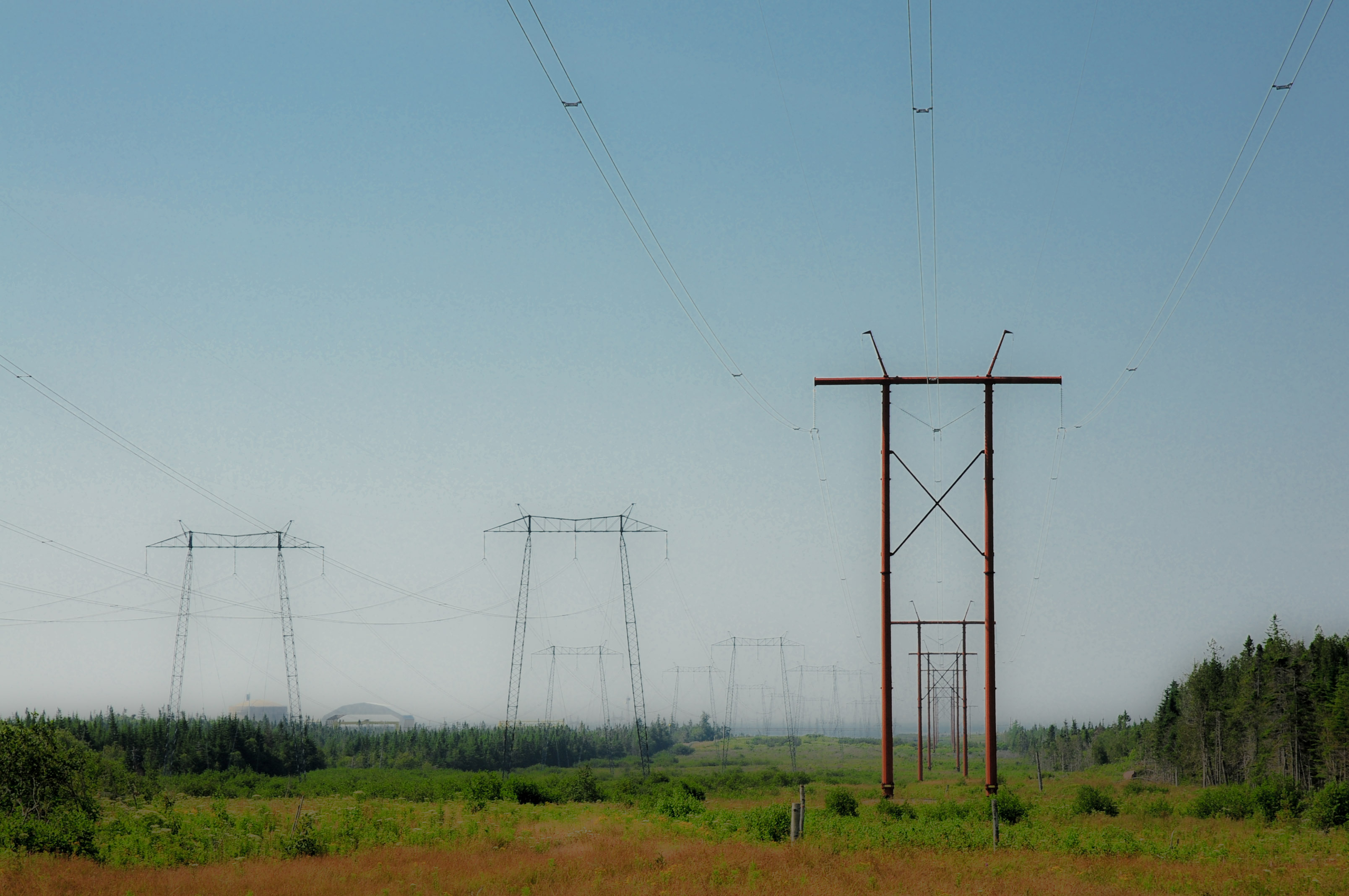 Power lines near the Point Lepreau (New Brunswick, Canada) nuclear generating station (in the background on the top left)